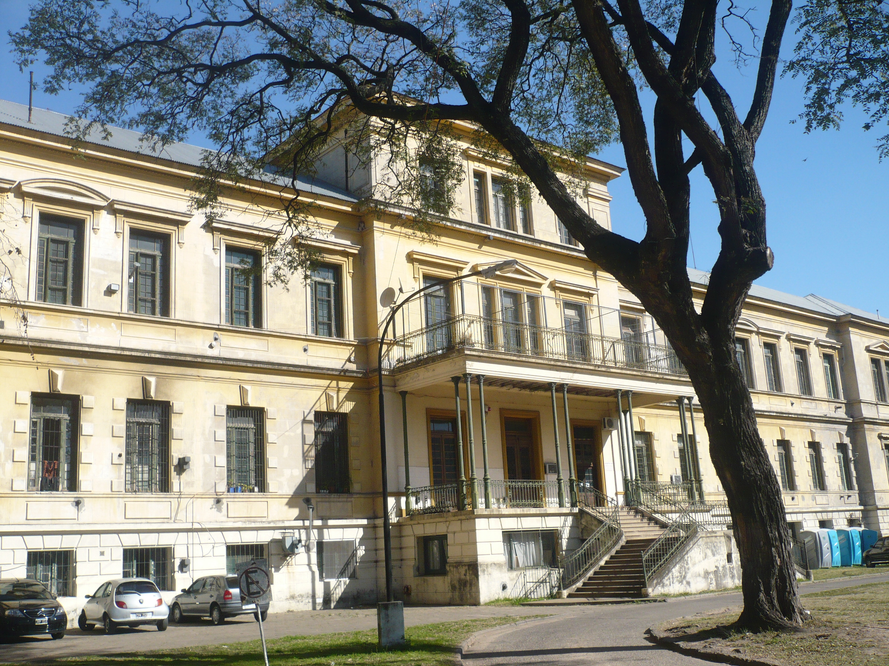 Braulio Moyano Hospital, public psychiatric hospital for women in Buenos Aires. Designed by Carl Nyströmer (1846-1913), and built in stages from 1893 to 1936.